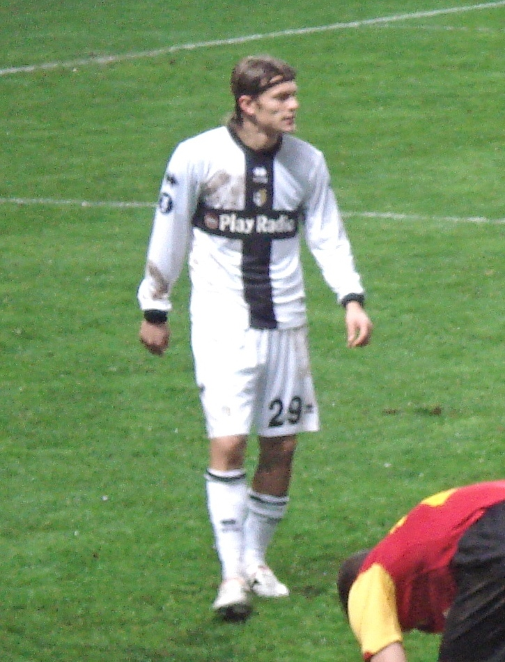 Zlatko Dedić, Parma AC vs RC Lens.